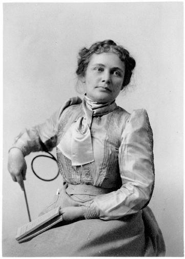 Sharlot Hall circa 1911.